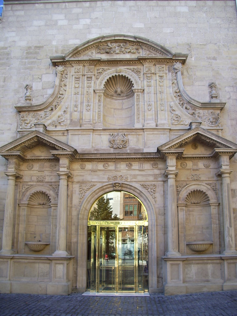 Façade of Parliament of La Rioja, former Monastery of La Merced, in Logroño